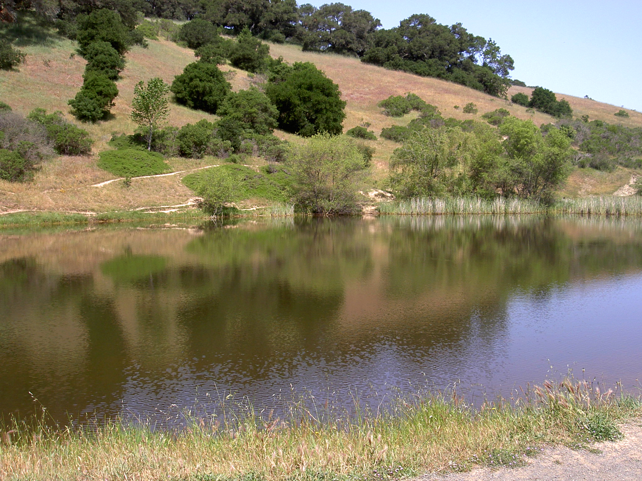 the fish pond at Helen Putnam Regional Park near Petaluma Long=-122.658476 Lat=38.213313